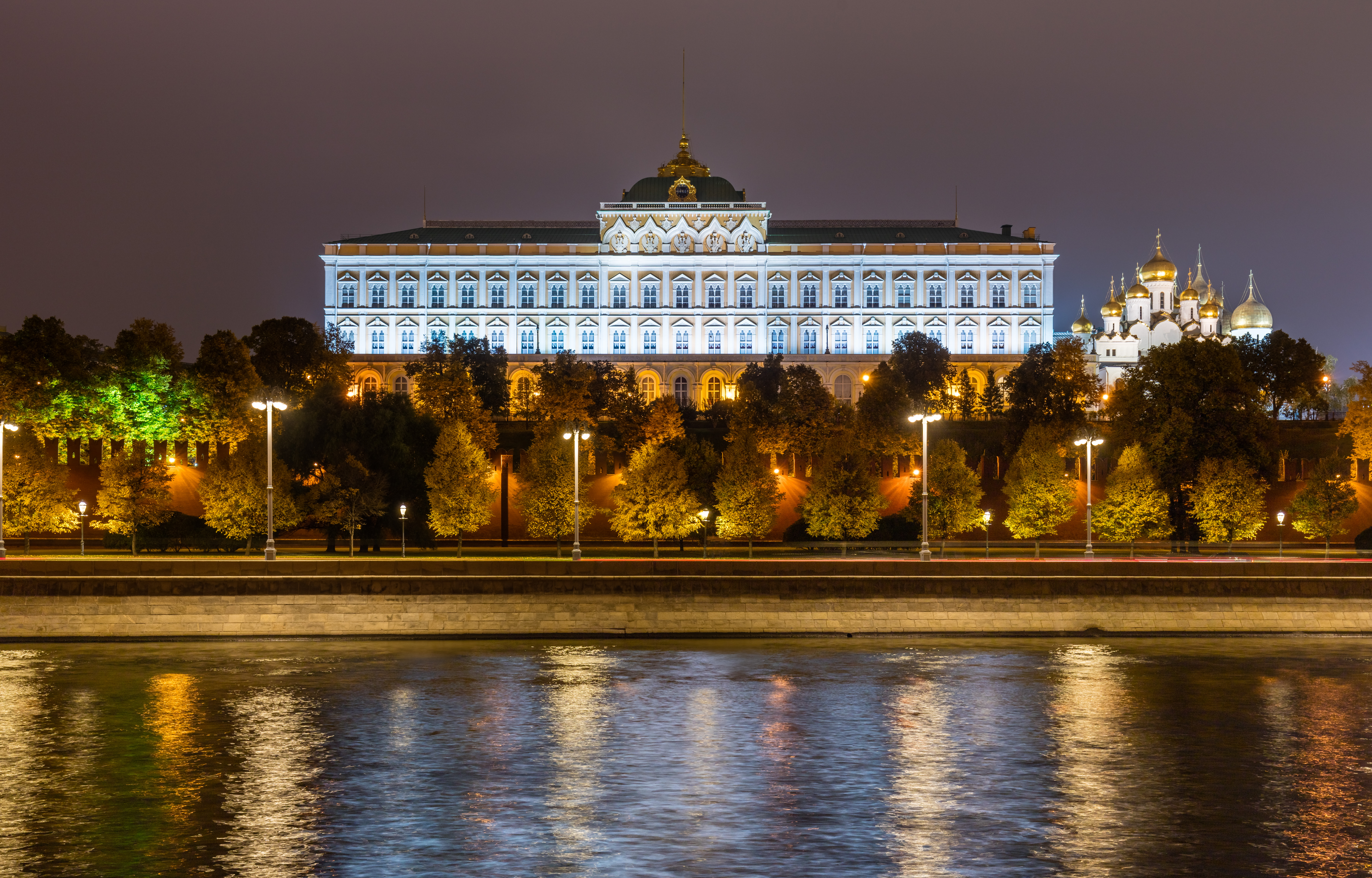 Night view of the Grand Kremlin Palace, Moscow, Russia. It was built from 1837 to 1849 on the site of the estate of the Grand Princes, which had been established in the 14th century on Borovitsky Hill. The palace, 125 metres (410 ft) long and 47 metres (154 ft) tall, was formerly the tsar's Moscow residence.